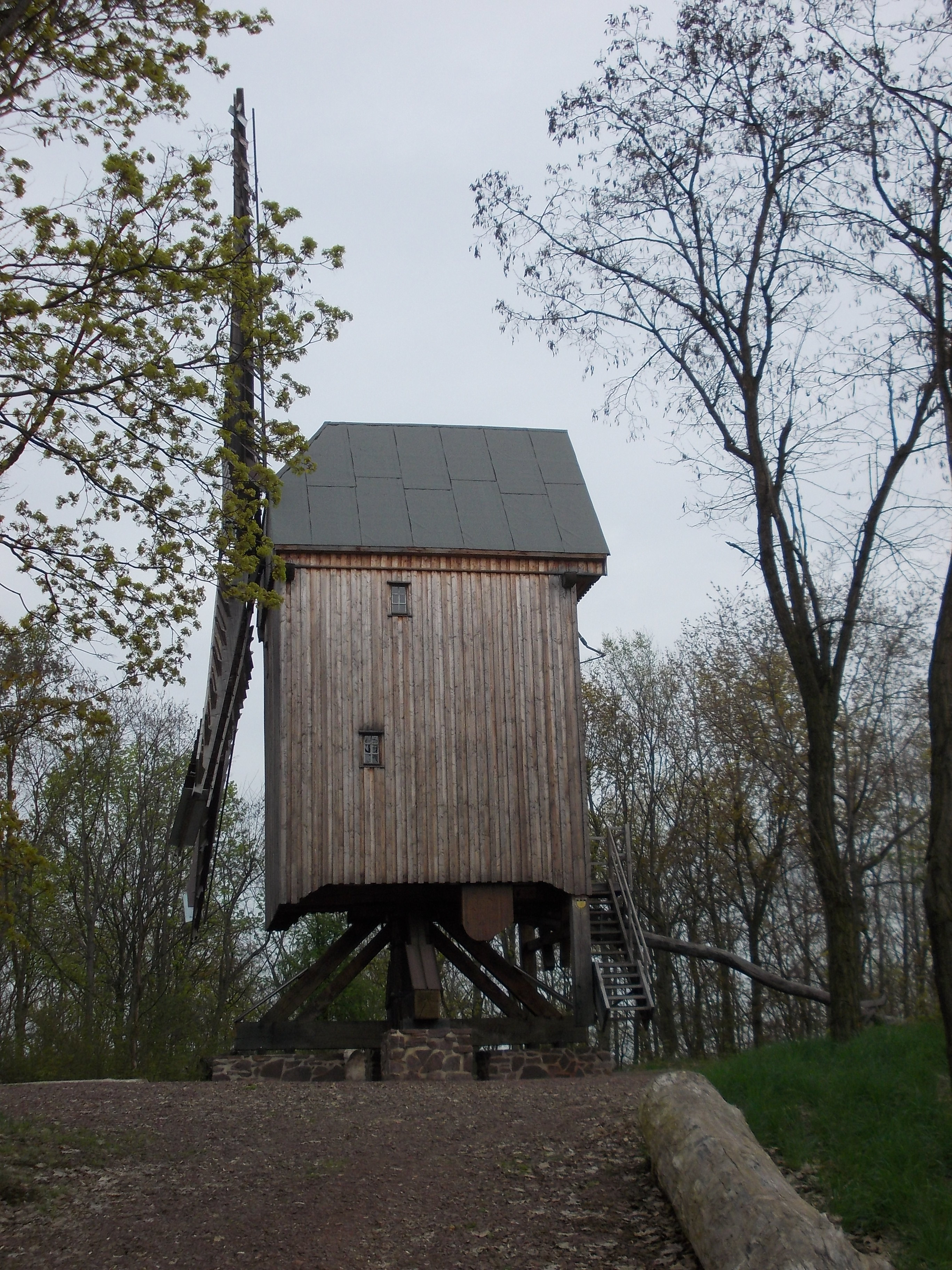 Post-mill in Krosigk (Petersberg/Saalekreis, Saxony-Anhalt), originally from Gollma